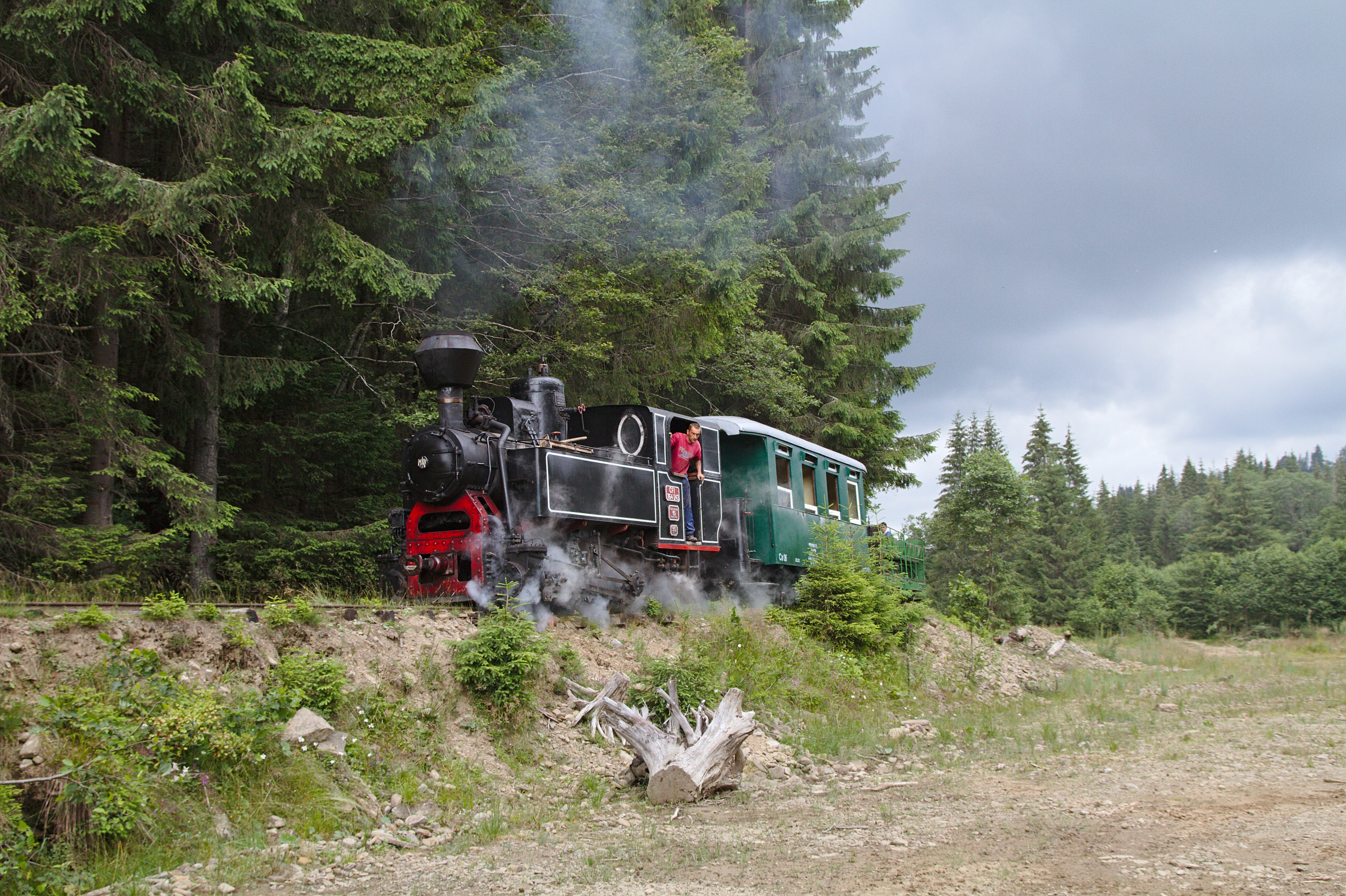 CFI 764-243 with a photo charter train on the revived upper section of the Covasna-Comandau network